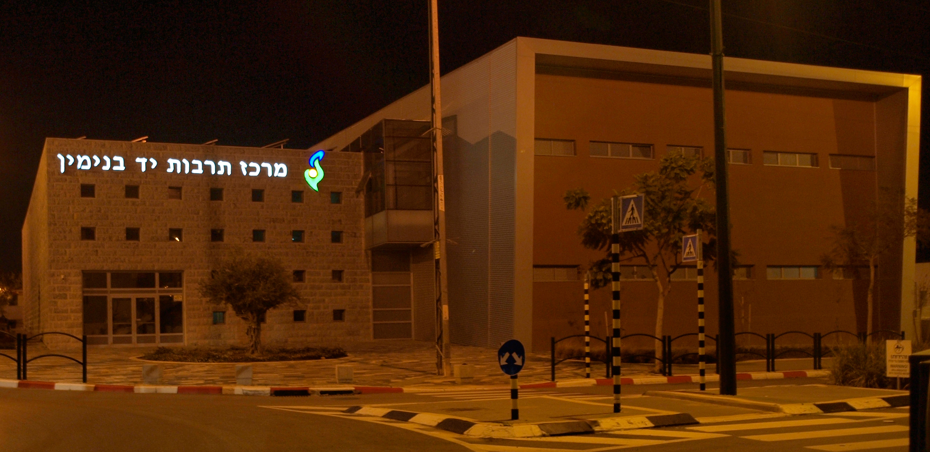 Yad Binyamin Culture center, Yad Binyamin, Israel